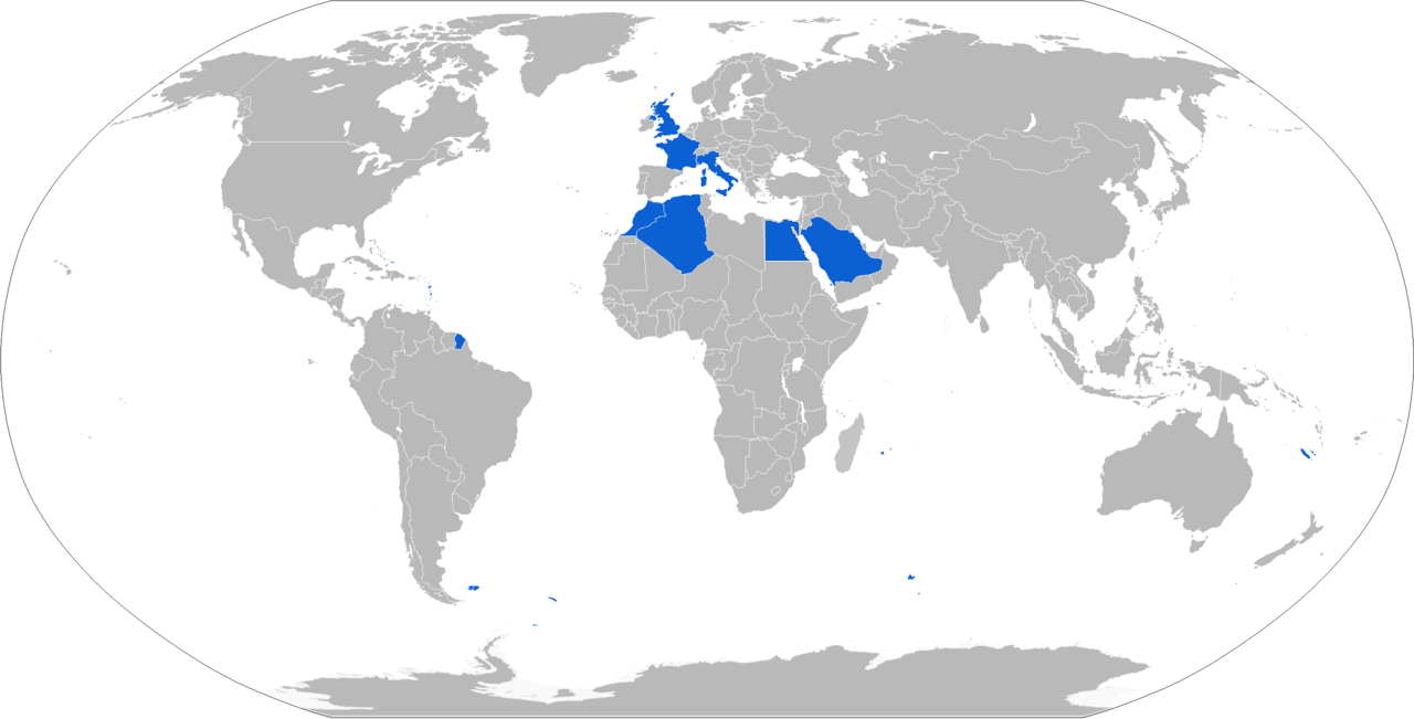 Aster Operators